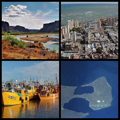 Montage of images from Chubut Province, Argentina.